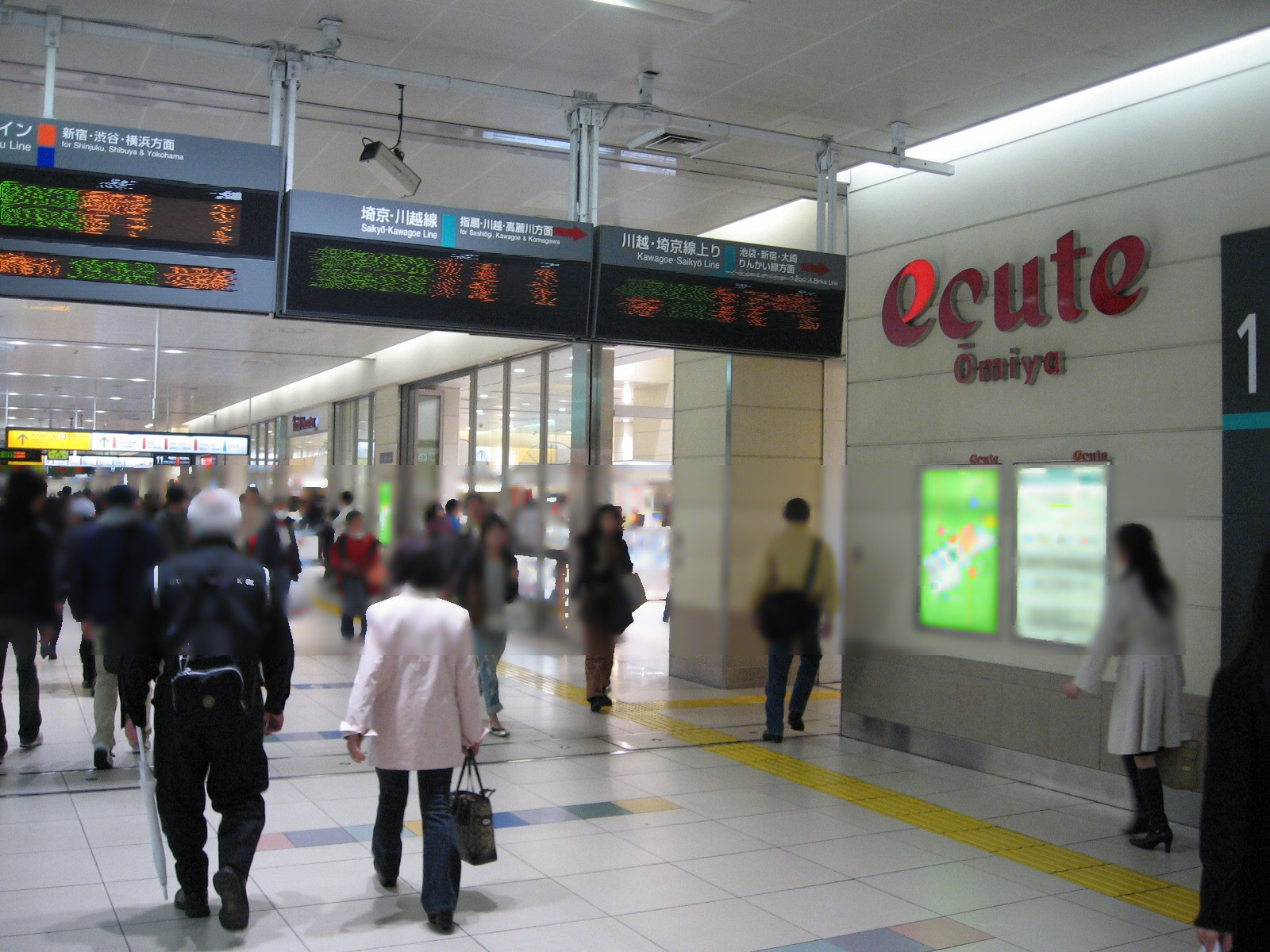 Ecute Omiya